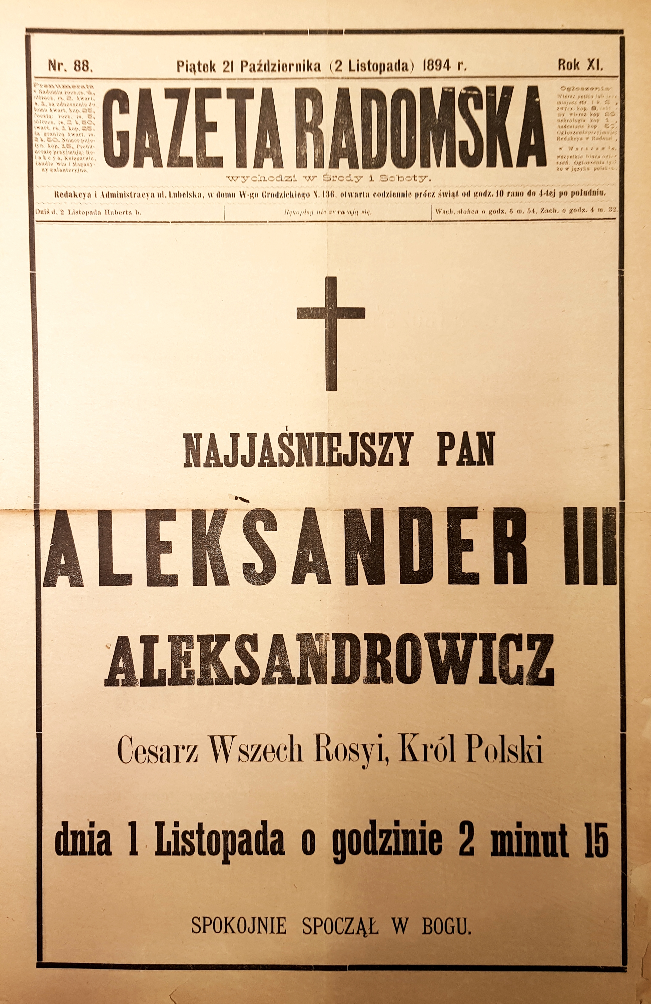 Gazeta Radomska (Radom Newspaper), 1894, No 88 with necrology of emperor Alexander III of Russia